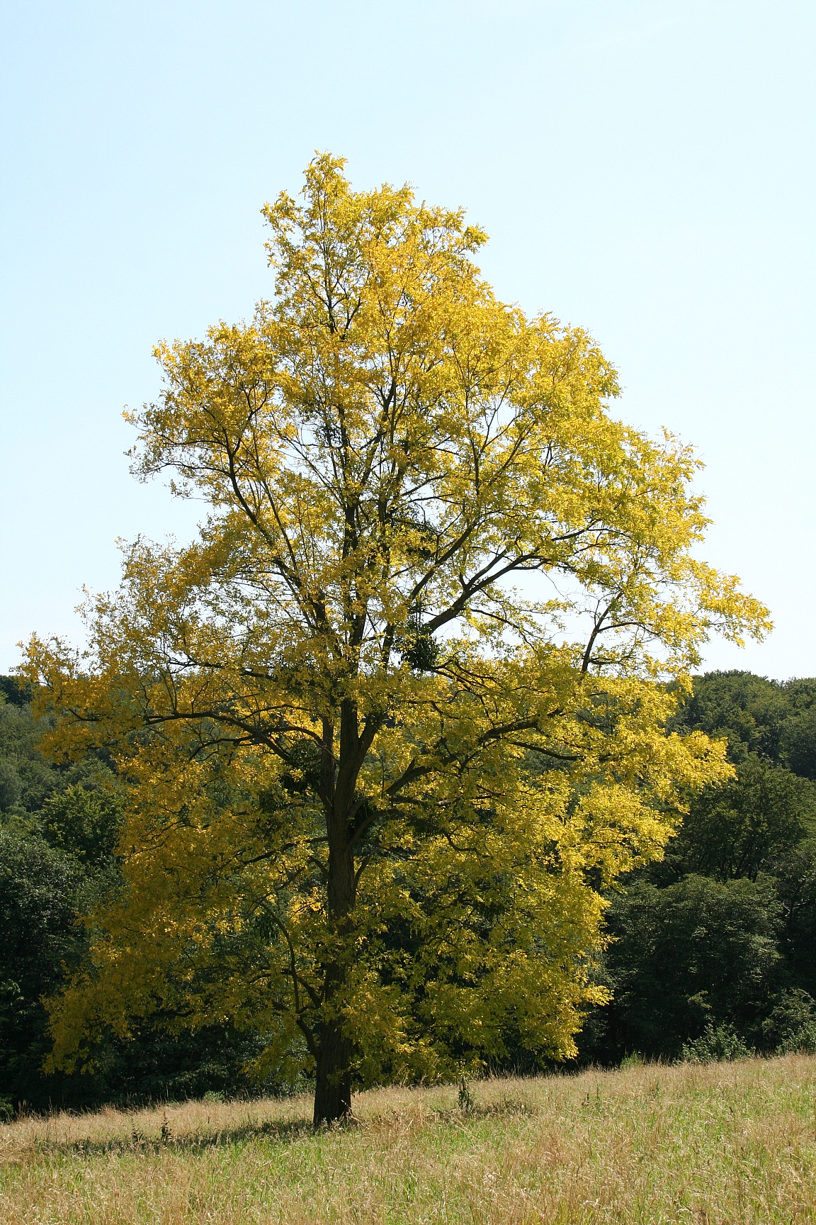 Black locust 'Frisia' .